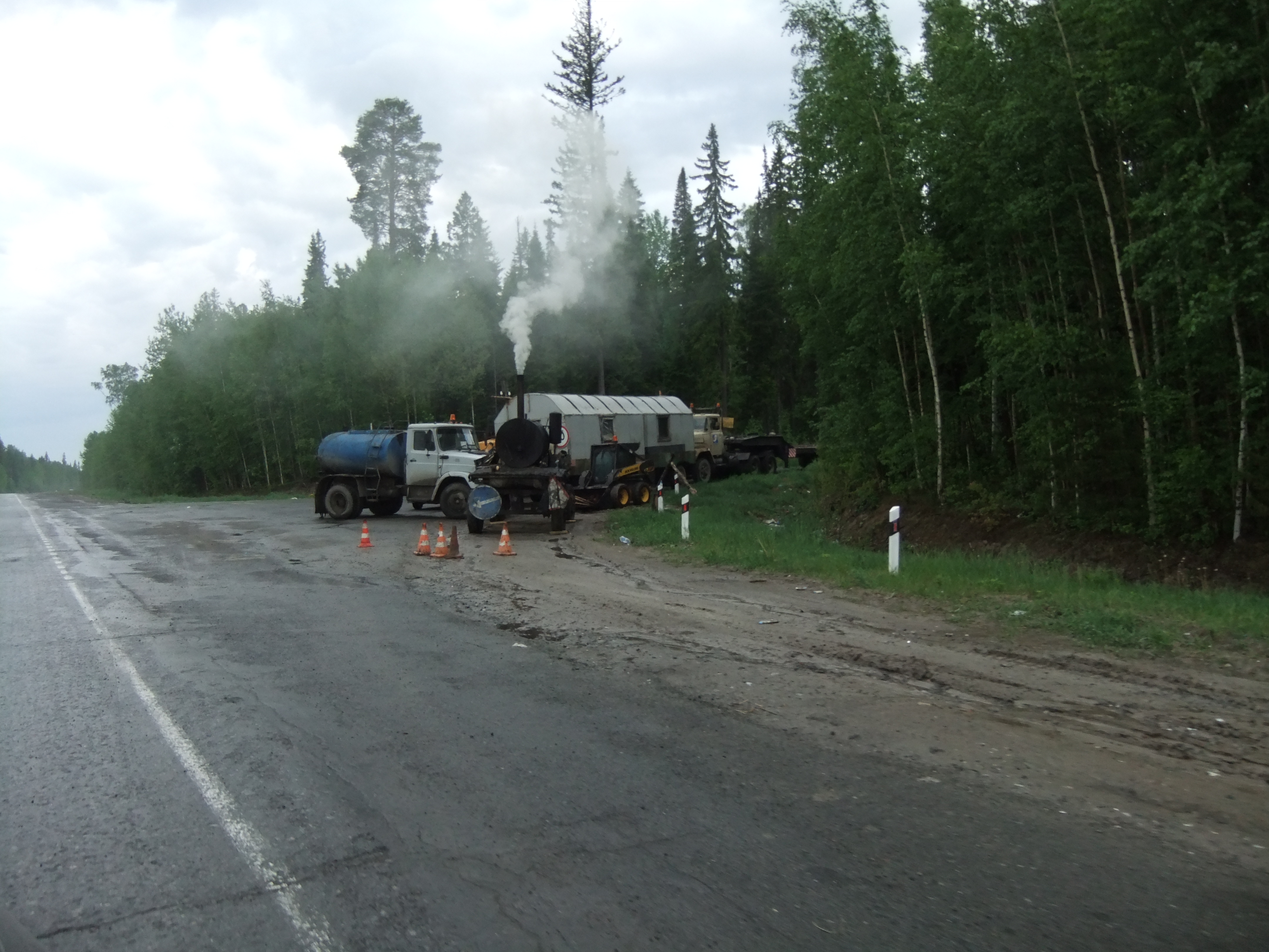 Road repair, Uvatsky District, Tyumen Oblast Попытка ремонта дороги